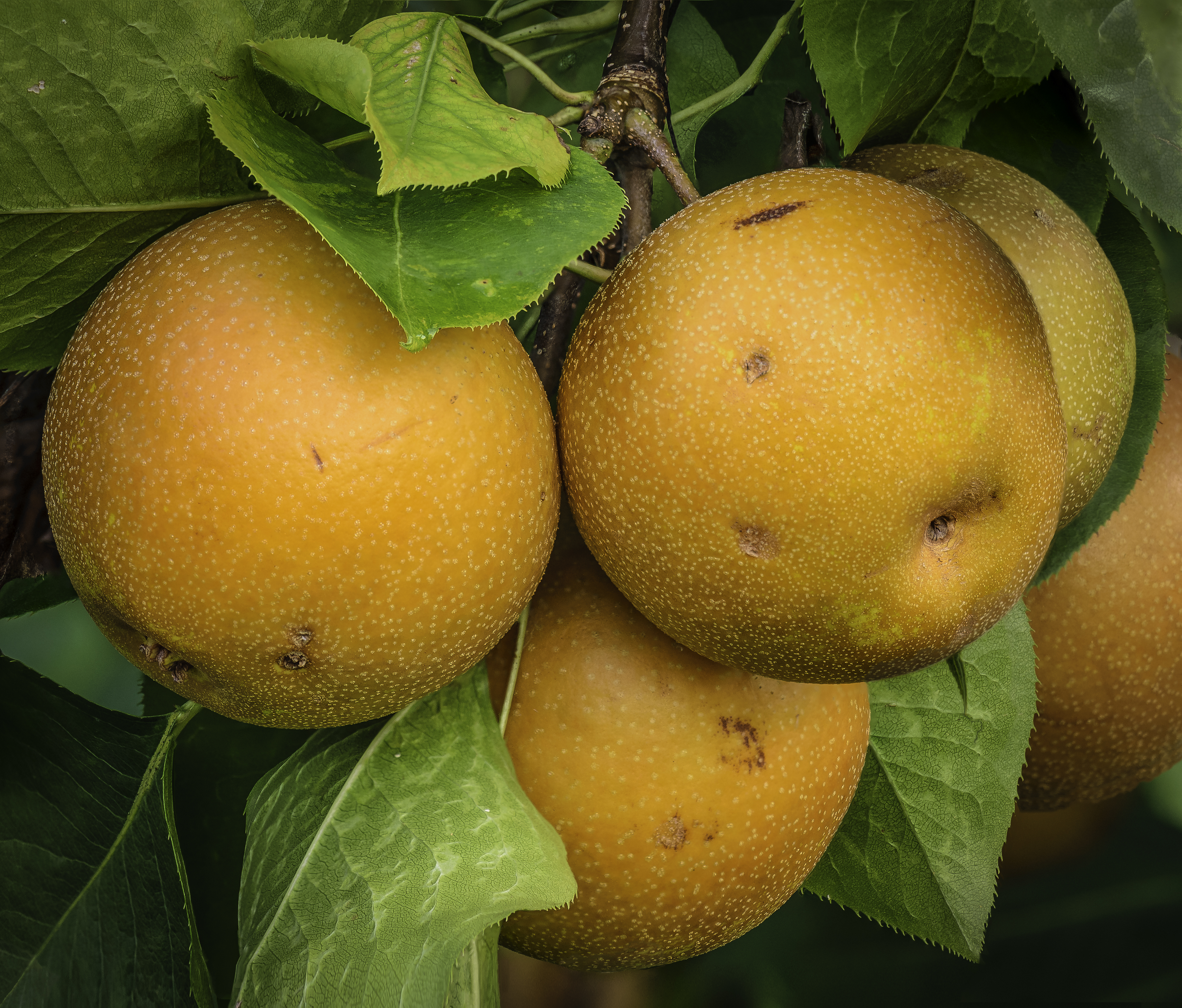 Pyrus pyrifolia "Raja" cultivar fruit, Virginia Beach, Virginia. These pears have an orangy tinge because they are fully ripe. All my photos starting with the name "Pyrus pyrifolia (Raja) ..." are of the same tree, regardless of date taken. Focus stacked from 9 photos.